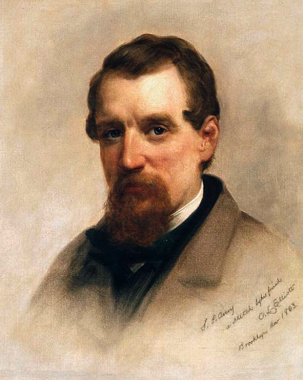 A portrait of Samuel Putnam Avery, painted by Charles Loring Elliott. A prominent art dealer and patron of the arts, Avery was one of the founders of the Metropolitan Museum of Art.